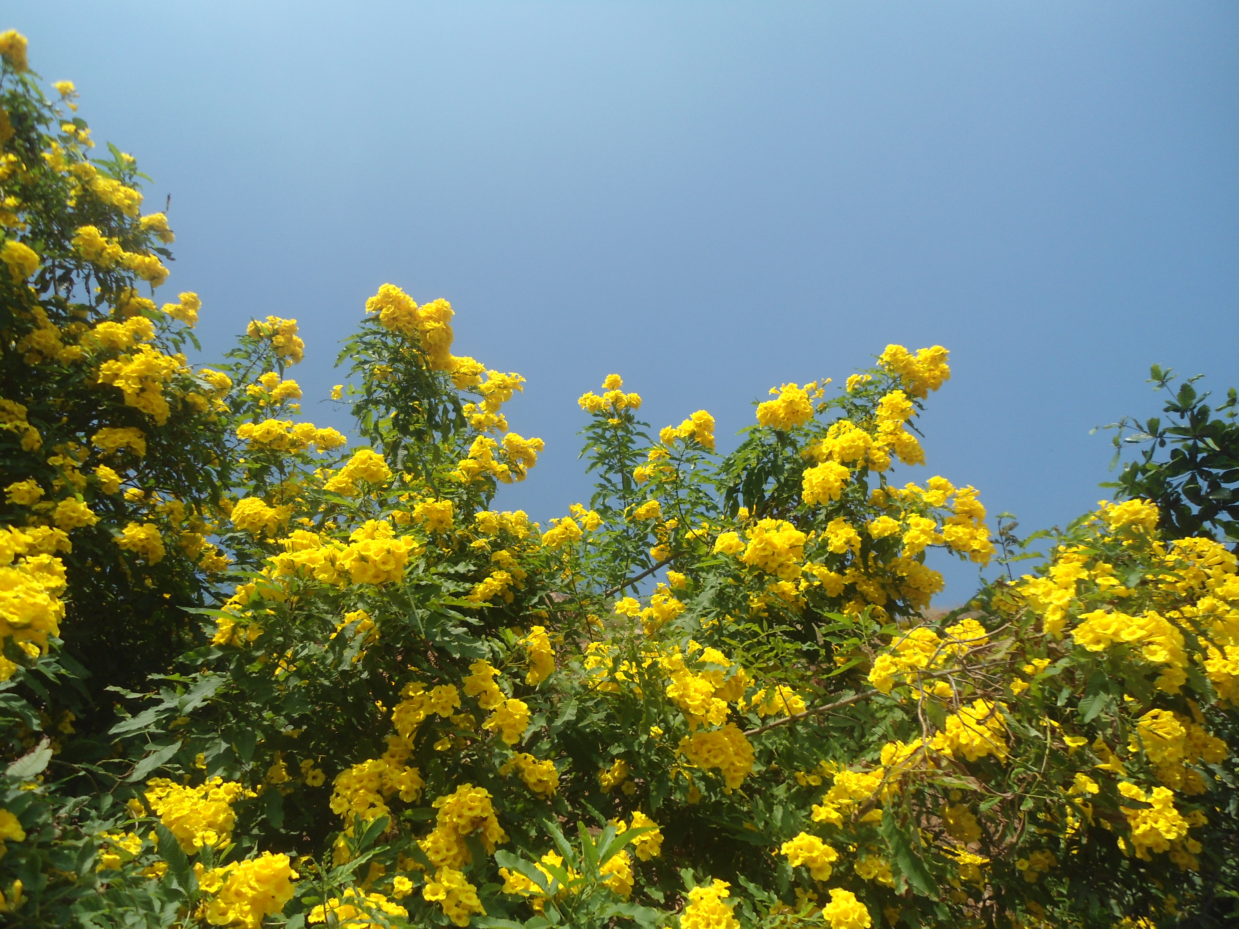 Tecoma stans (yellow bell flowers) at Tenneti Park in Visakhapatnam